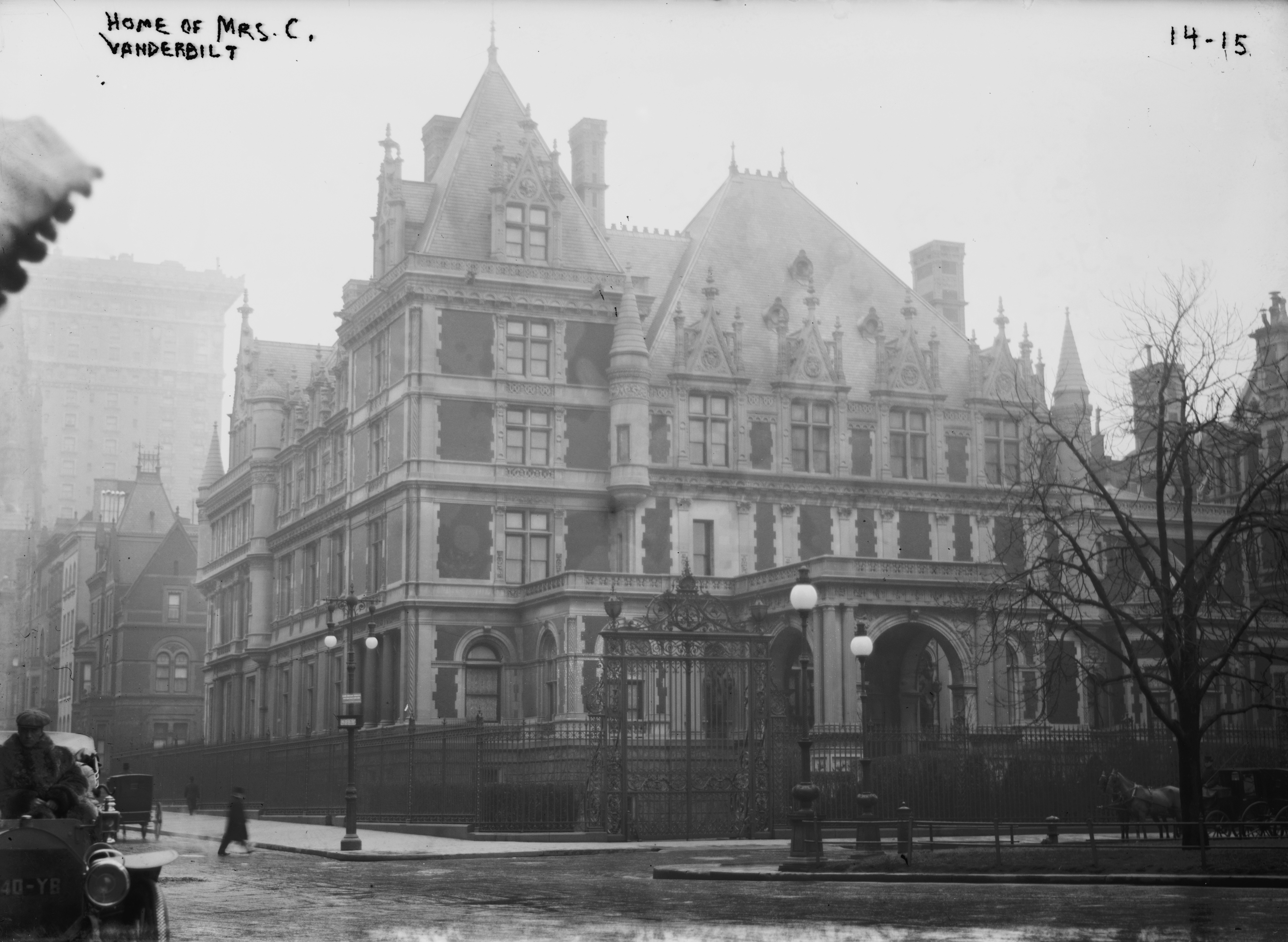 The Cornelius Vanderbilt II House, located at 1 West 57th Street, New York City.